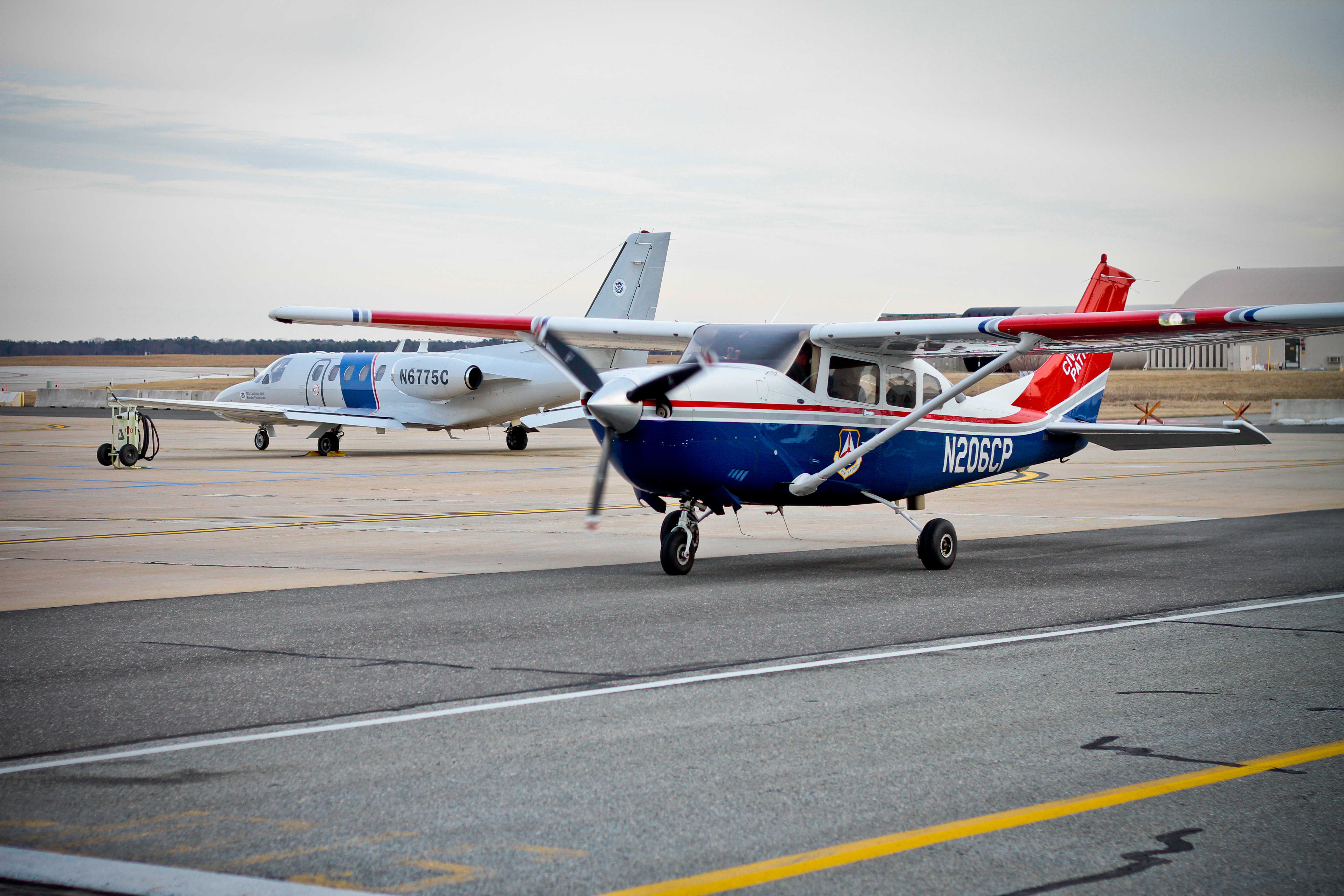 A Civil Air Patrol aircraft taxis at Atlantic City Air National Guard Base, N.J. on Jan. 28 prior to an intercept exercise in preparation for Super Bowl XLVIII. The Civil Air Patrol played the role of a wayward aircraft during the exercise. U.S. Air Force assets will be part of a joint team involving the FBI, Customs&Border Protection and the FAA providing security for the Super Bowl in the air on game day.